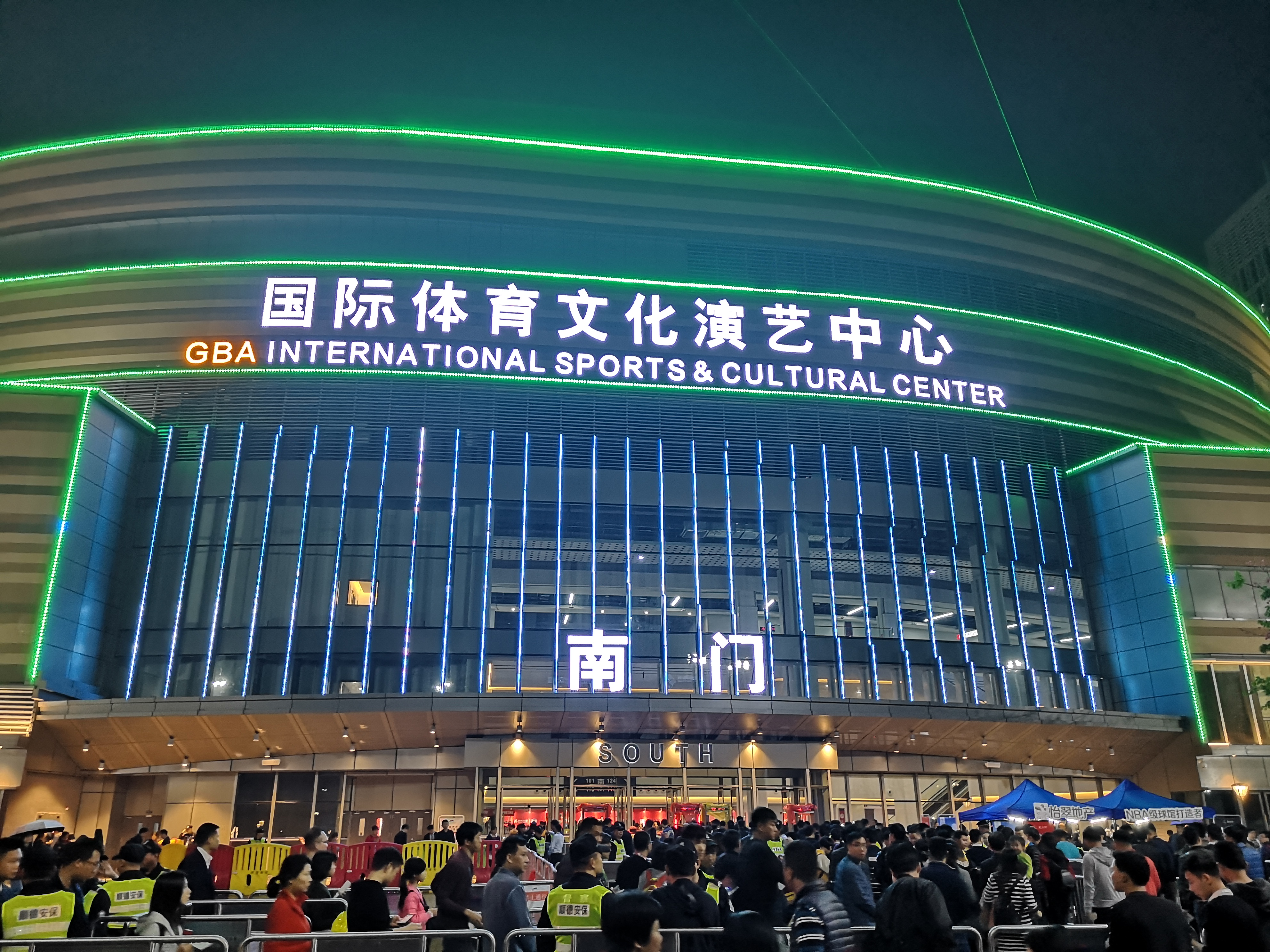 South side of Foshan International Sports and Cultural Center